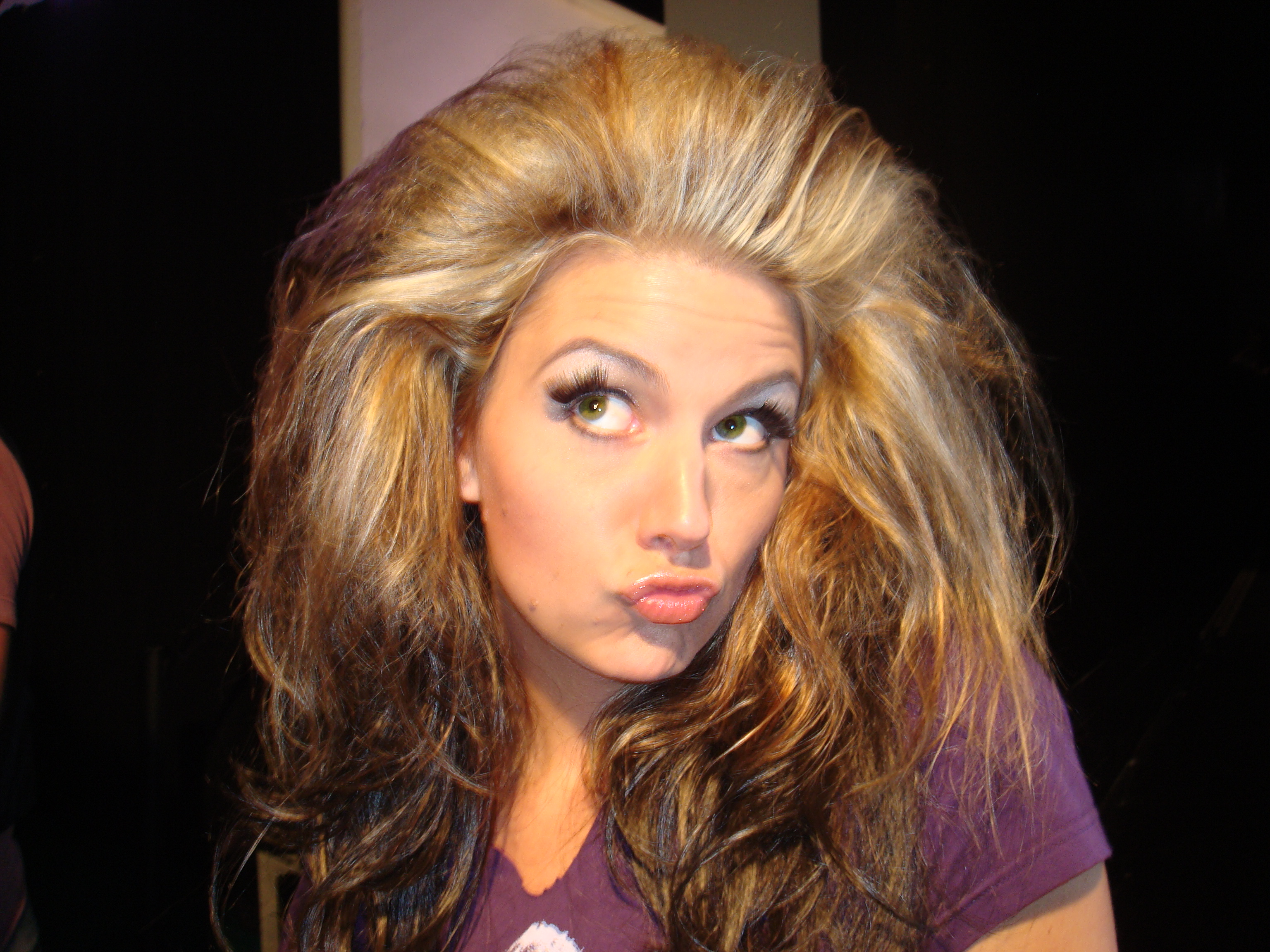 Jessica Hunter pouts.